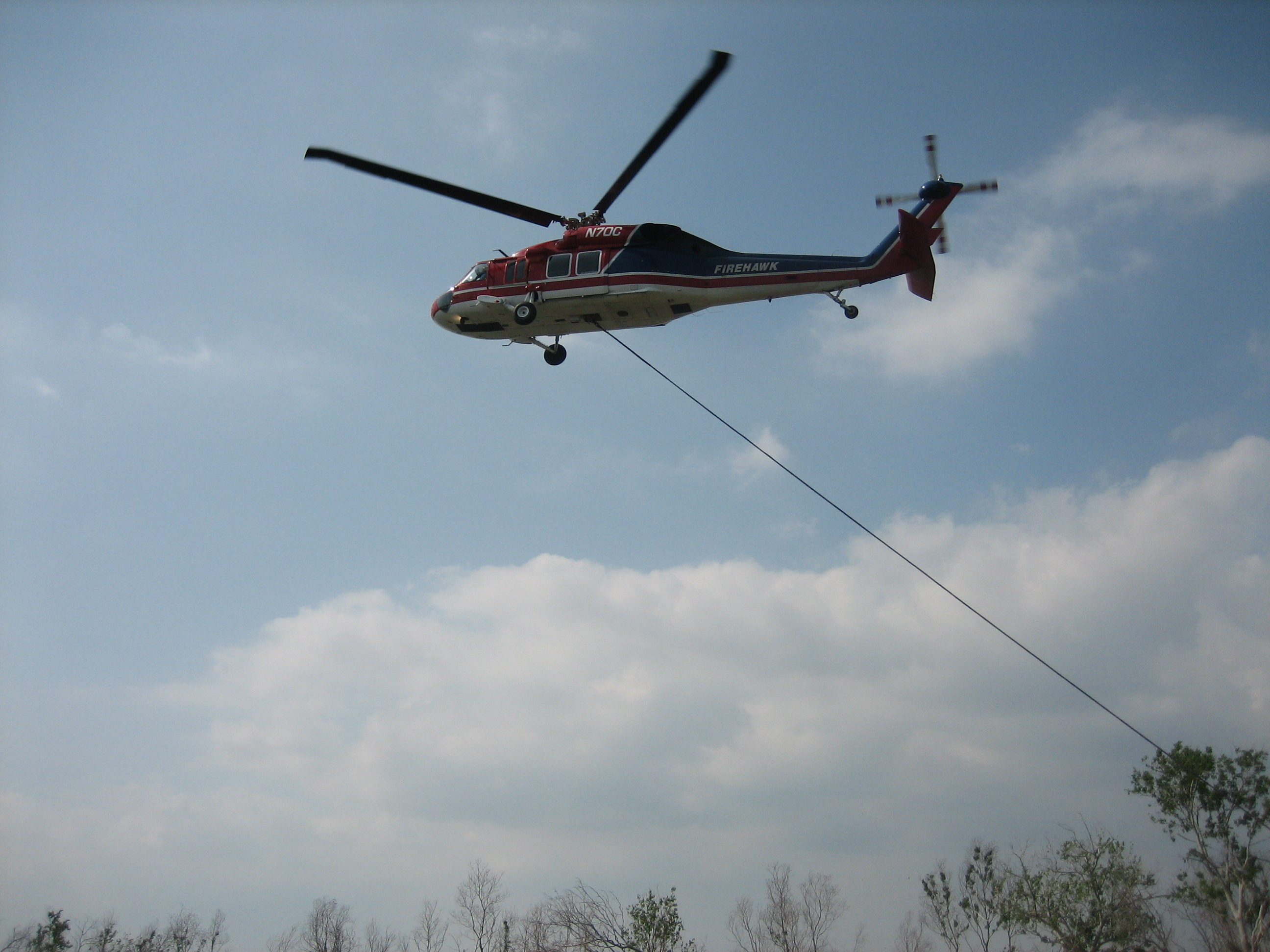 Fire fighting helicopter in process of dipping "Bambi Bucket" in bayou beside road between Reggio and Delacroix in St. Bernard Parish, Louisiana to fight nearby fire.